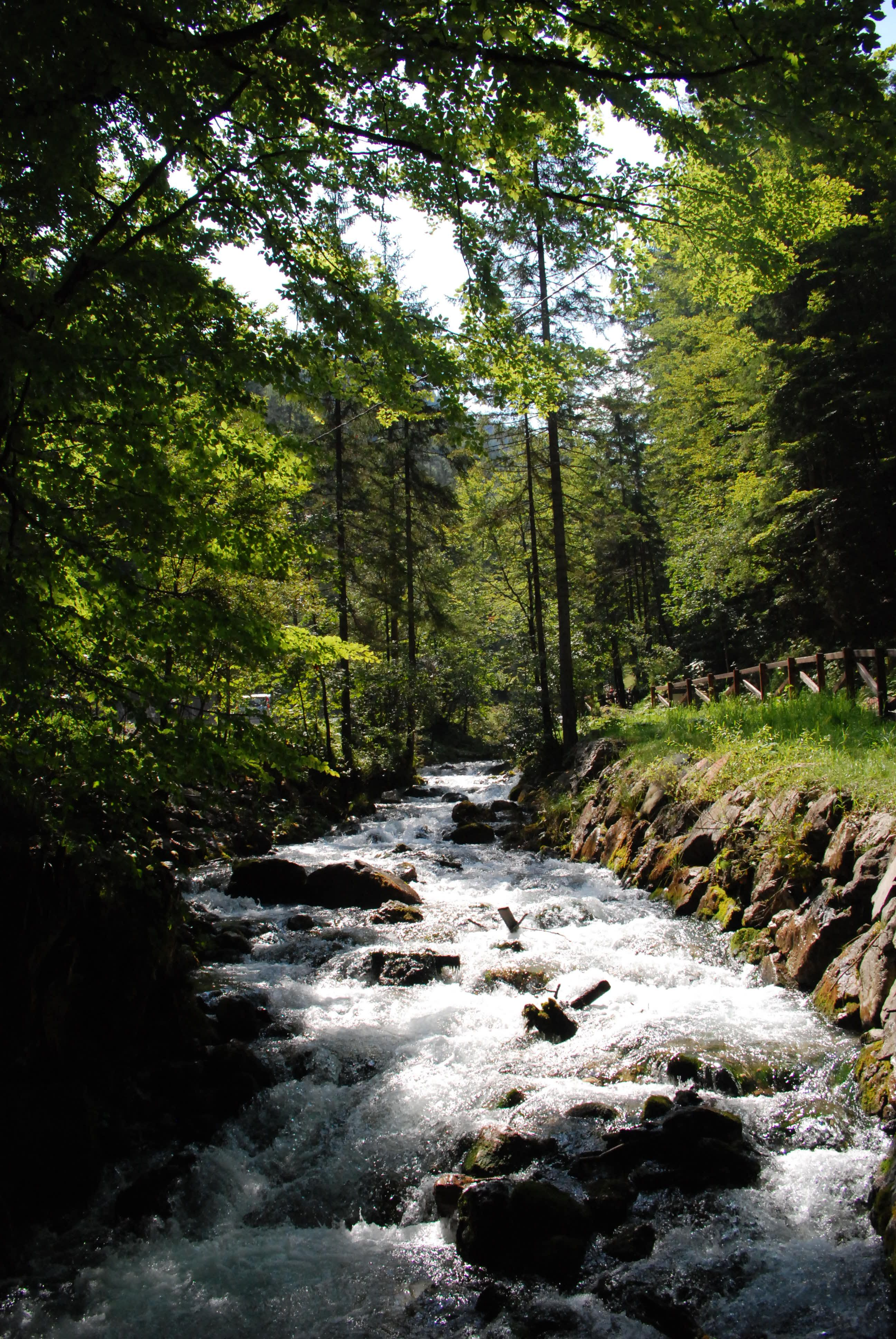 Rio del Lago (Jezerski potok). It sources in the Lower Lake of Fusine (Italy).